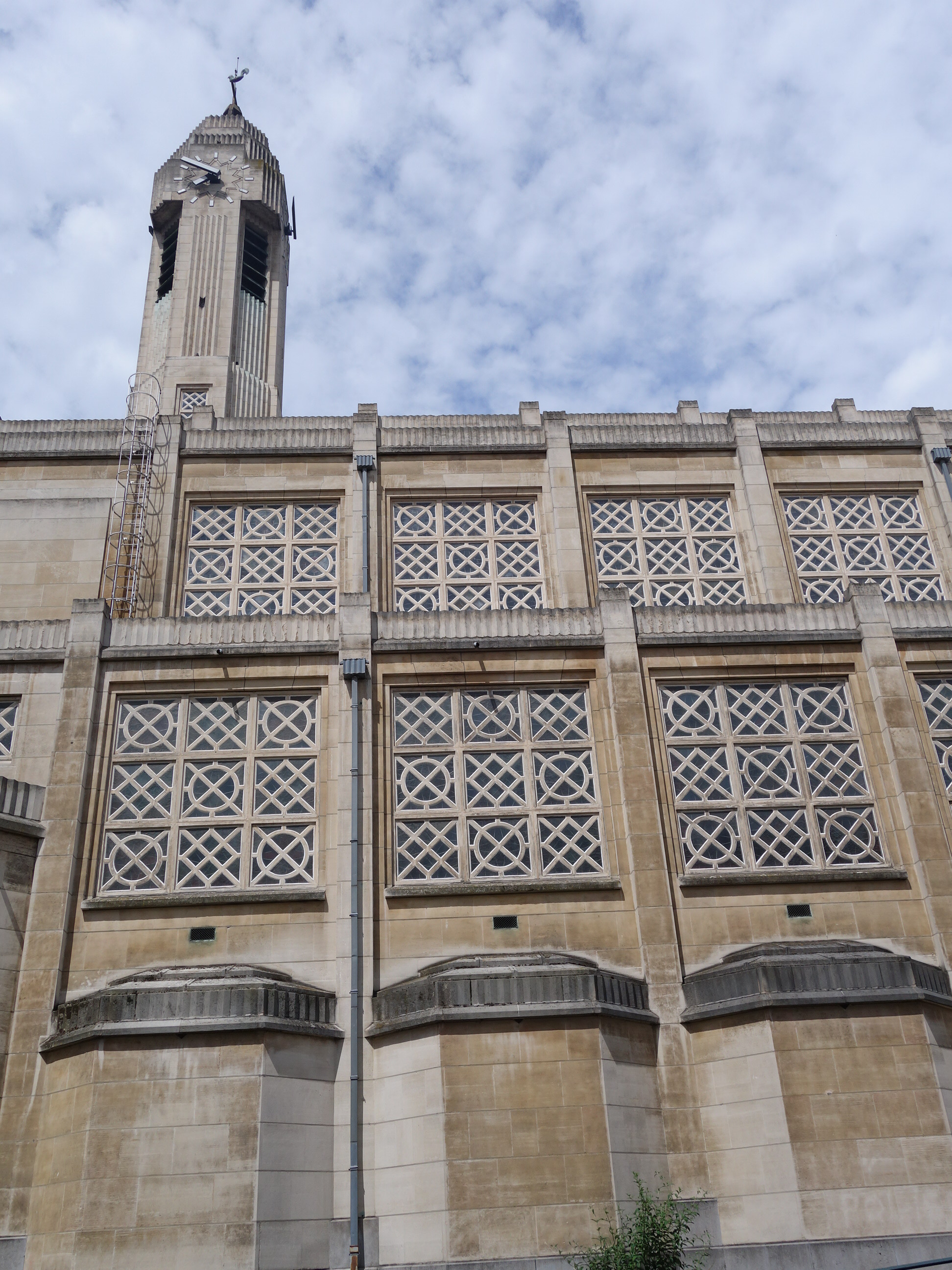 Saint John the Baptist Church of Molenbeek, Brussels